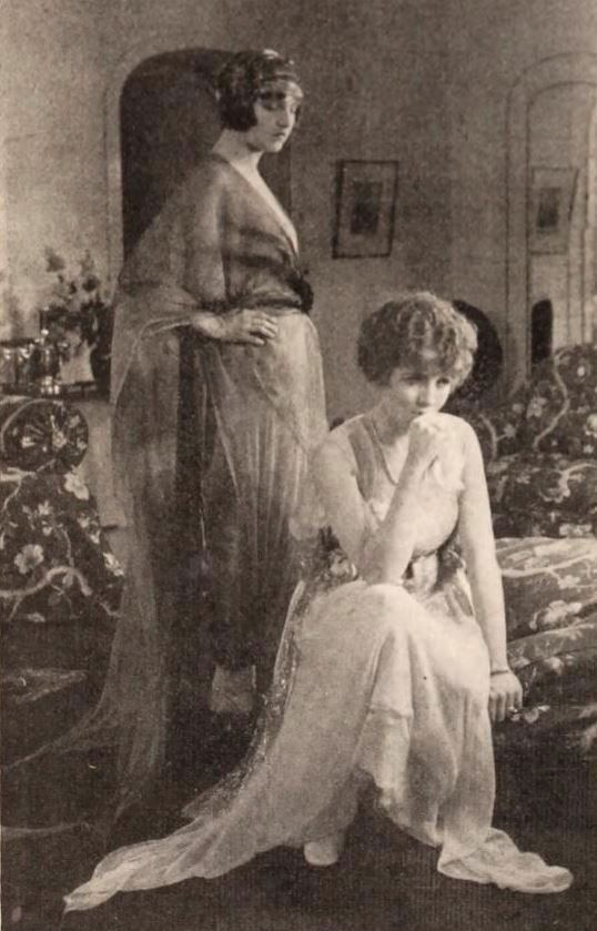 Still from the American film What's Worth While? (1921) with Mona Lisa and Claire Windsor, on page 74 of the April 2, 1921 Exhibitors Herald.